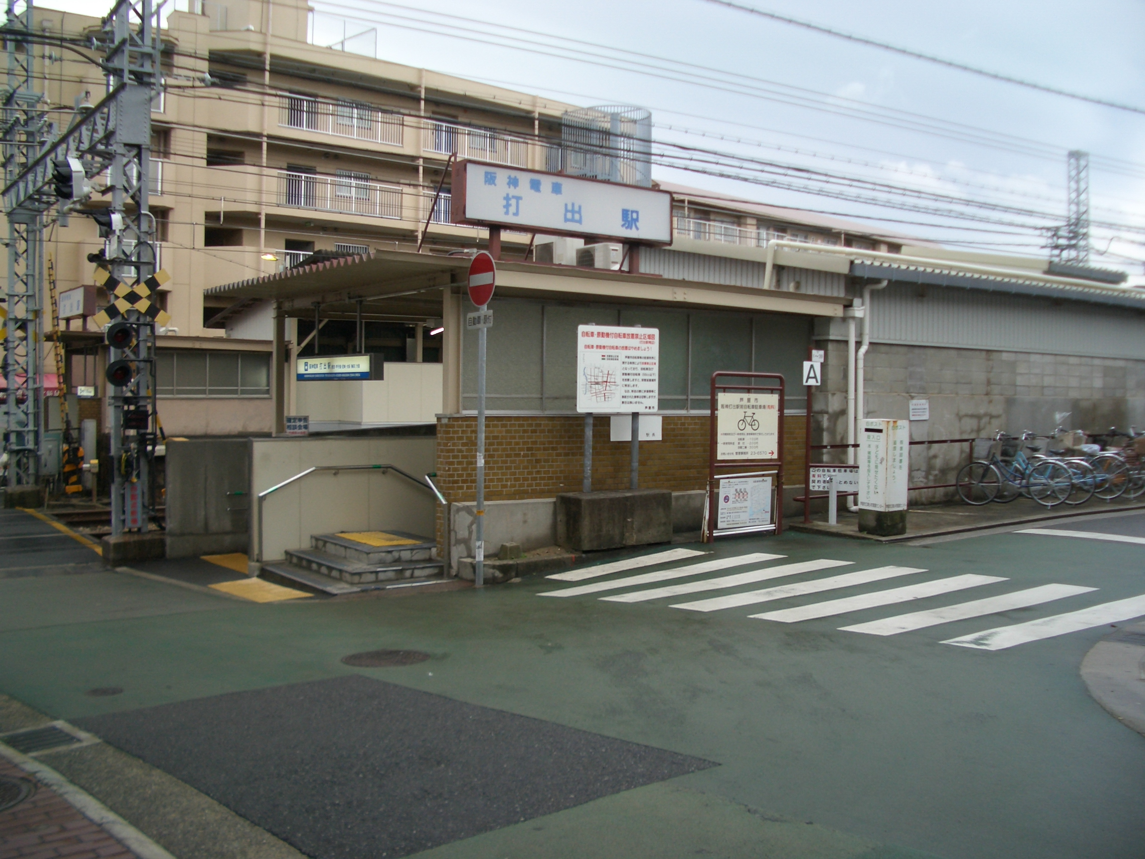 Uchide Station entrance